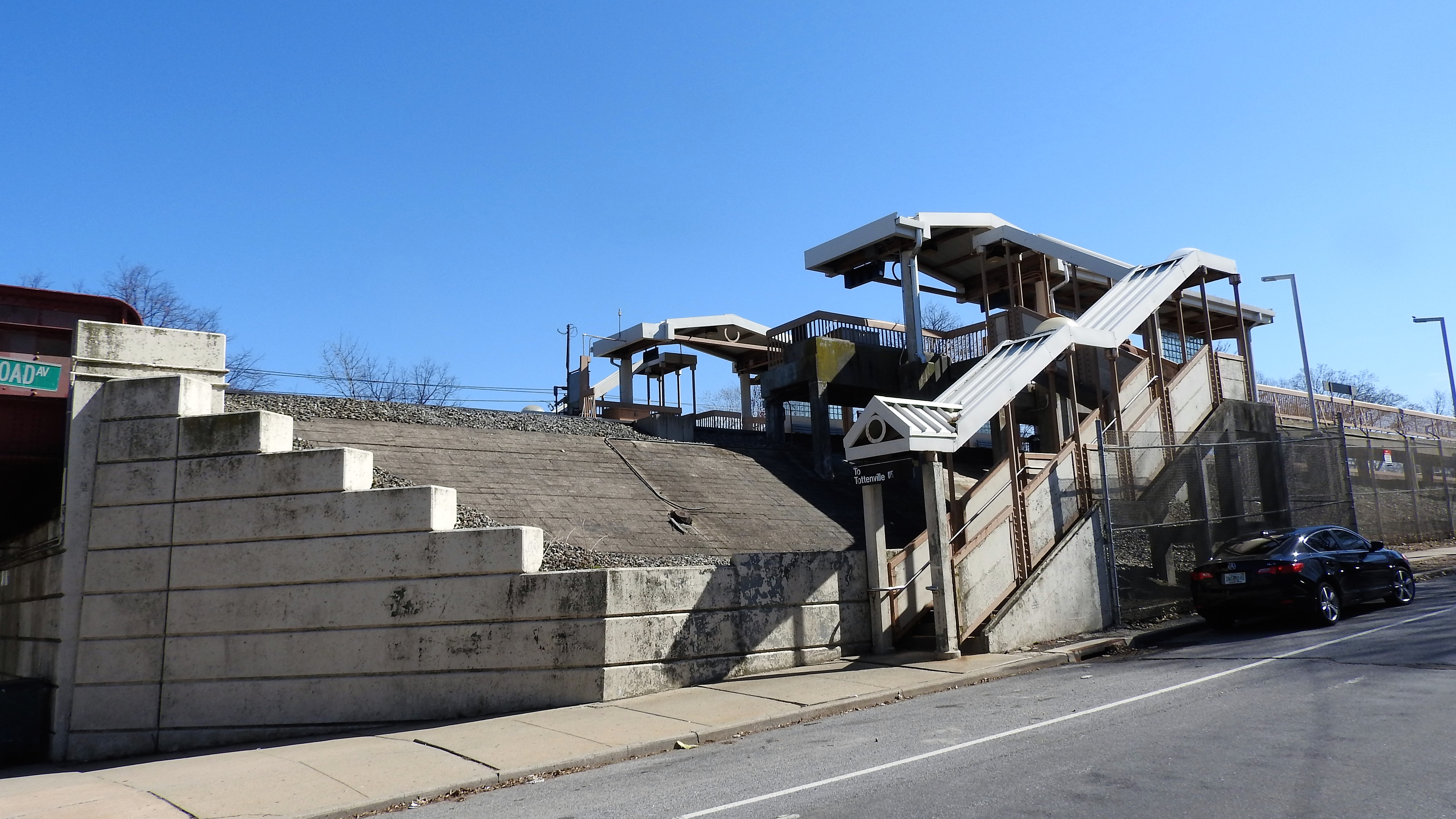 Looking south at station from the Avenue